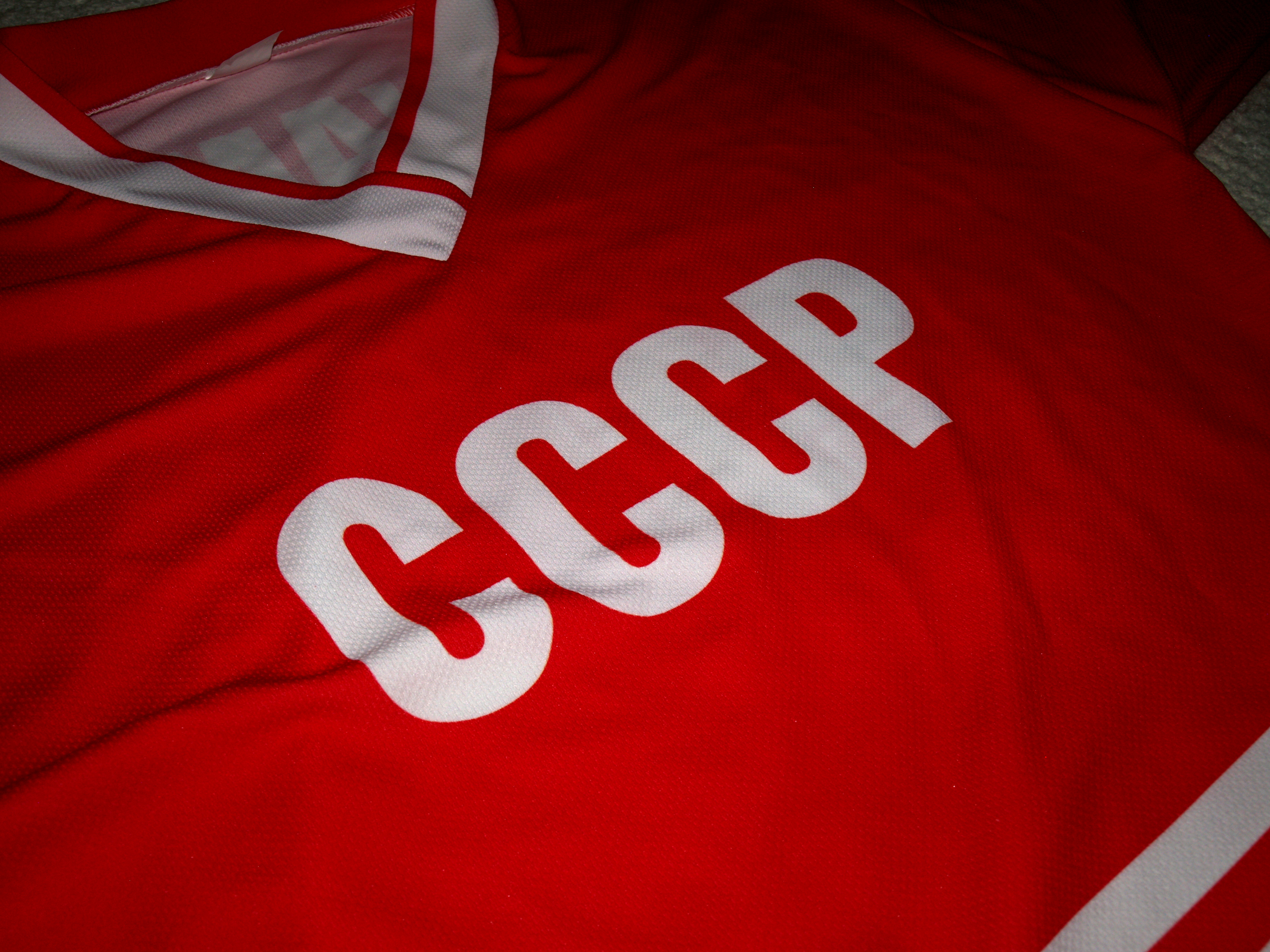 CCCP text logo in Soviet Union national ice hockey team jersey